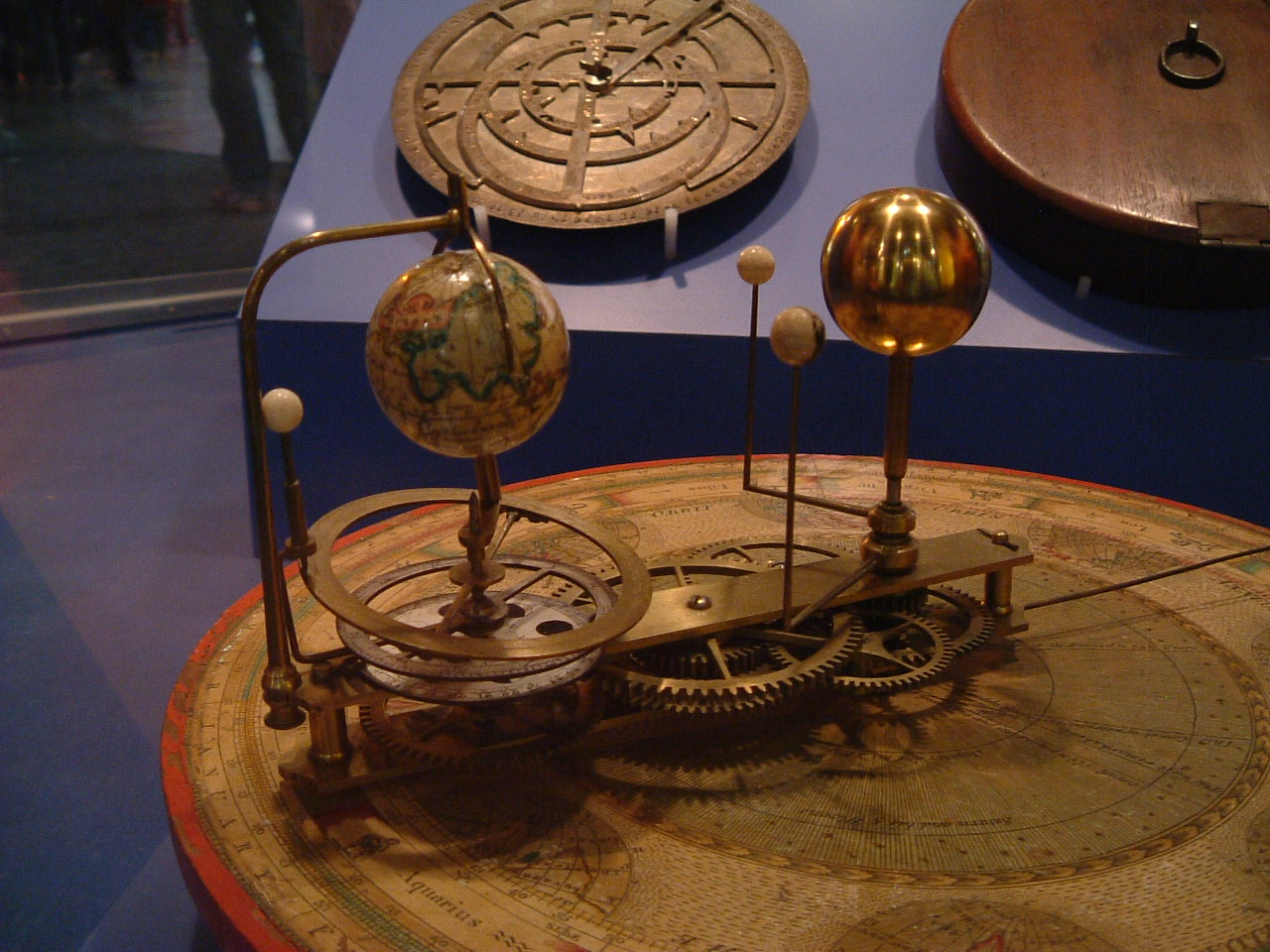 Picture of a small orrery